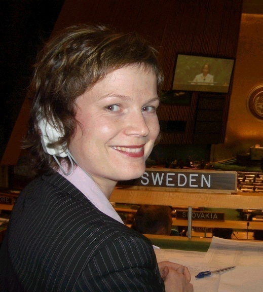 Cecilia Wigström, attending the UN Assembly as member of the Swedish delegation.